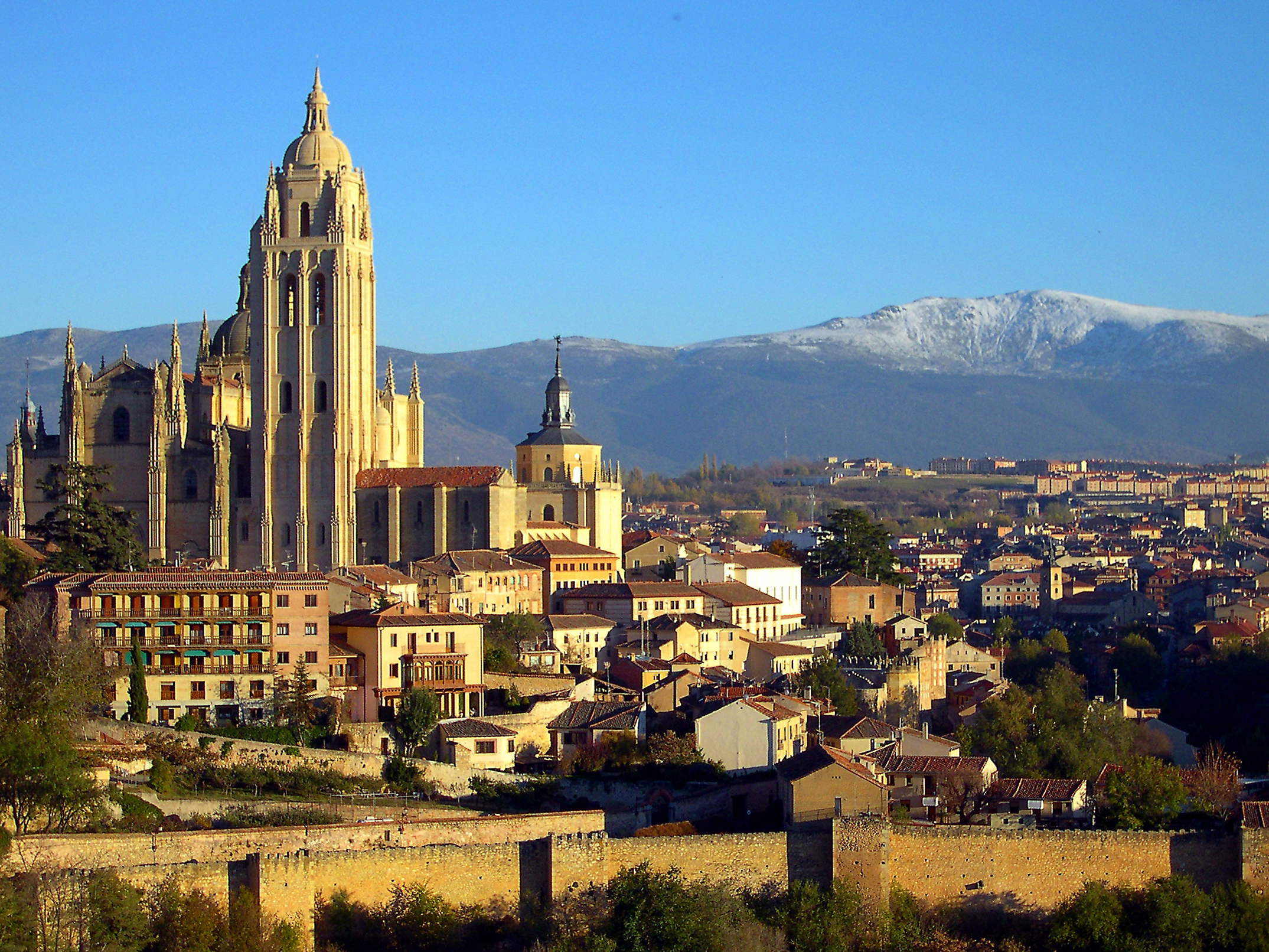 View of the Cathedral of Segovia (Spain) from the Alcázar. Architects: Juan Gil de Hontañón (from 1525 until 1526), his son Rodrigo Gil de Hontañón (until 1577) and Juan de Mugaguren.